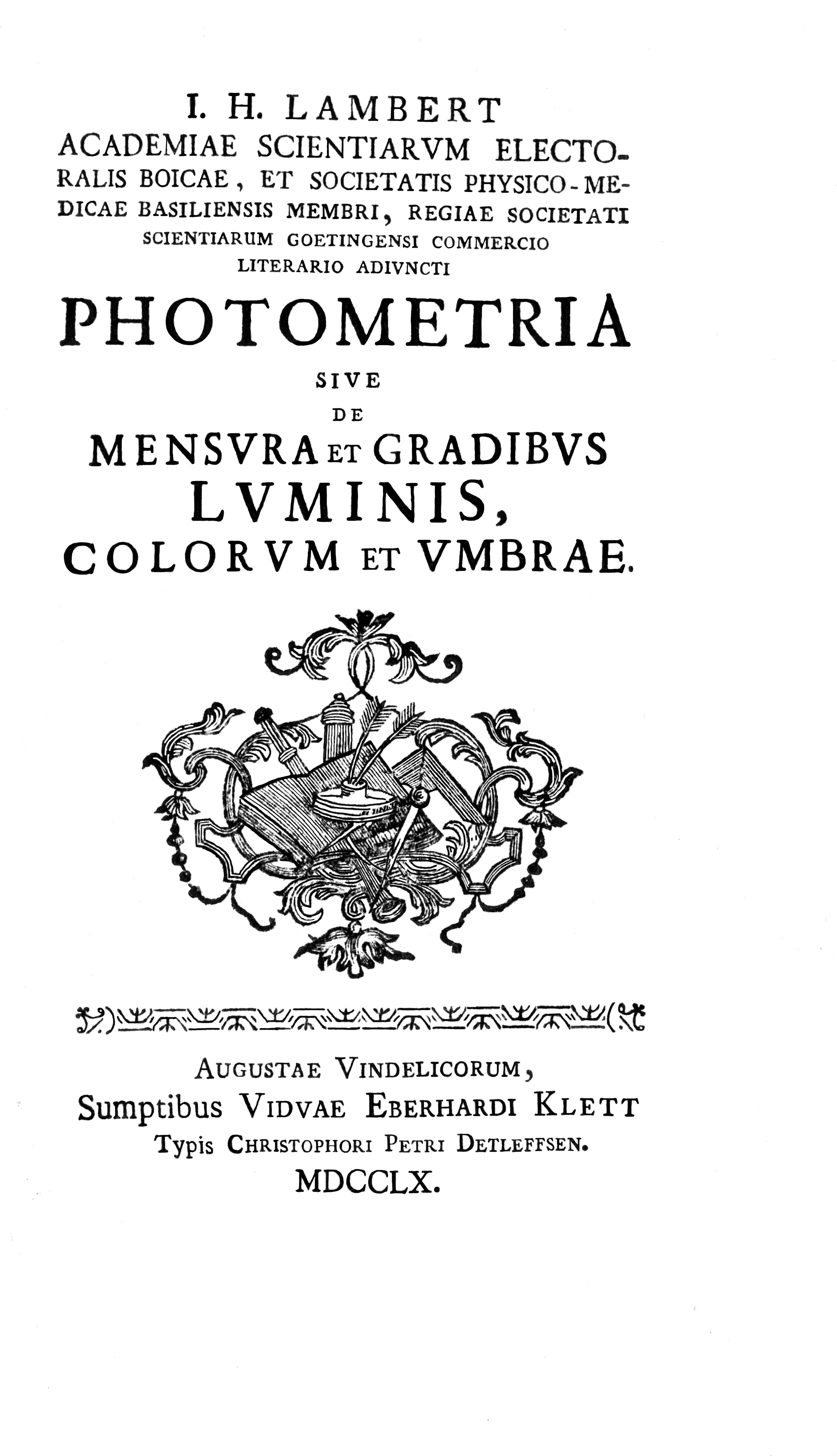 This is a cleaned-up scan of that title page of my copy of Lambert's Photometria